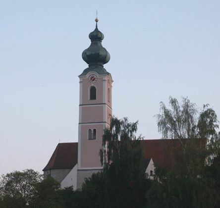 church of Mehring, made by me in spring 2004